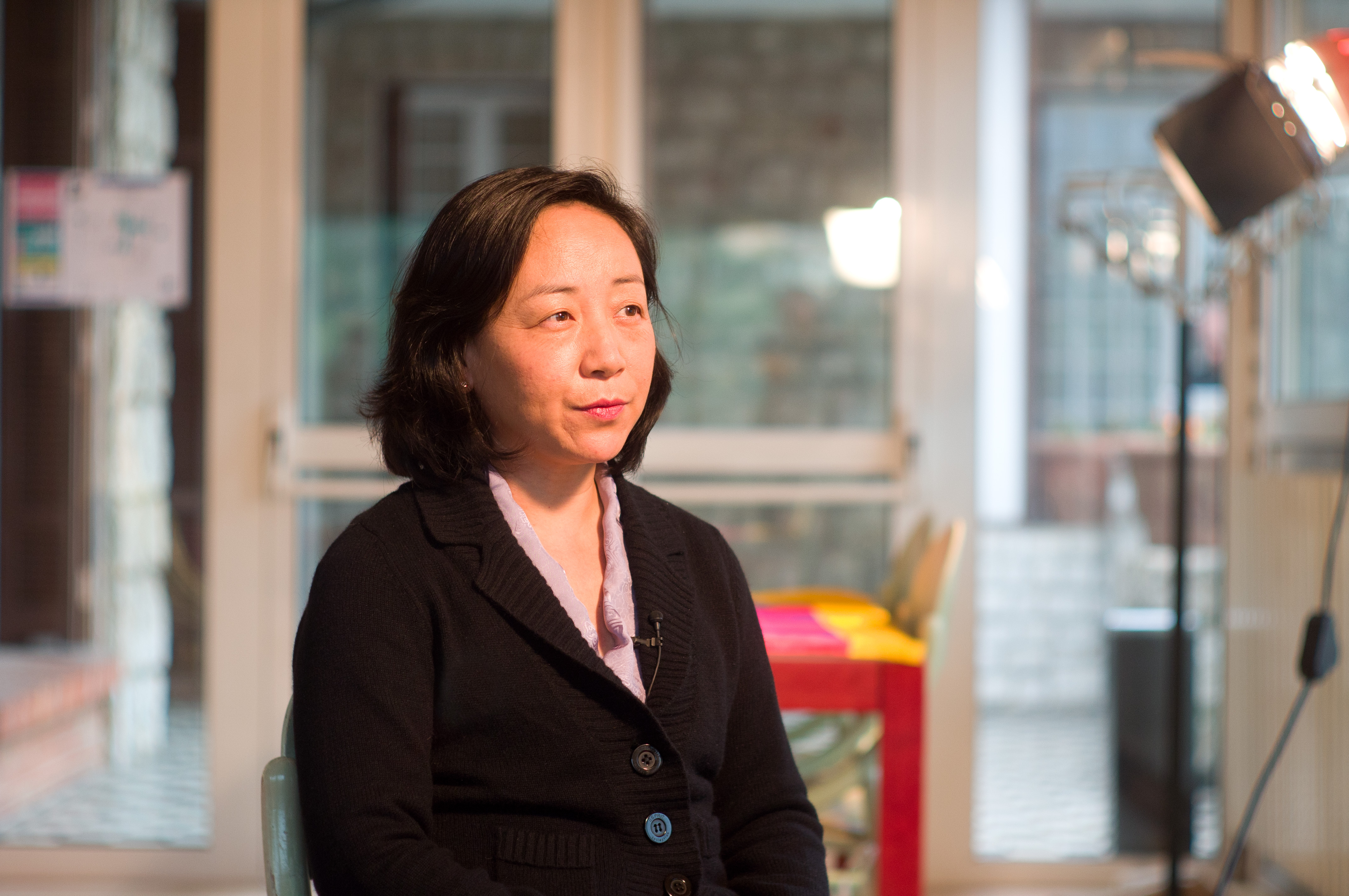 Minister of Information & International Relations in the Tibetan Government in Exile 2011